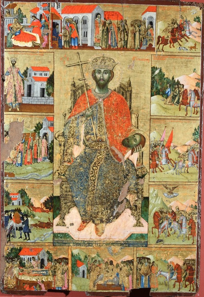 Icon of Saint Jovan Vladimir, from the Ardenica Monastery in Albania. The saint is depicted as sitting on a throne in the central rectangle, surrounded by scenes of his life and miracles, according to his Greek hagiography. Egg tempera on wood, 77.4 cm x 52.7 cm, contains text in Greek. The icon is now kept in the National Museum of Medieval Art, Korcë.